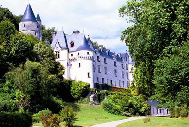 Château de Chissay Summary Château de Chissay